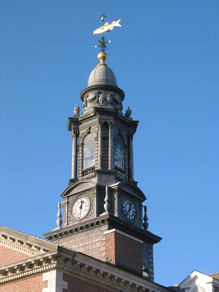 The cupola of the neo-Georgian main building of the Albany Academy, Albany, New York.